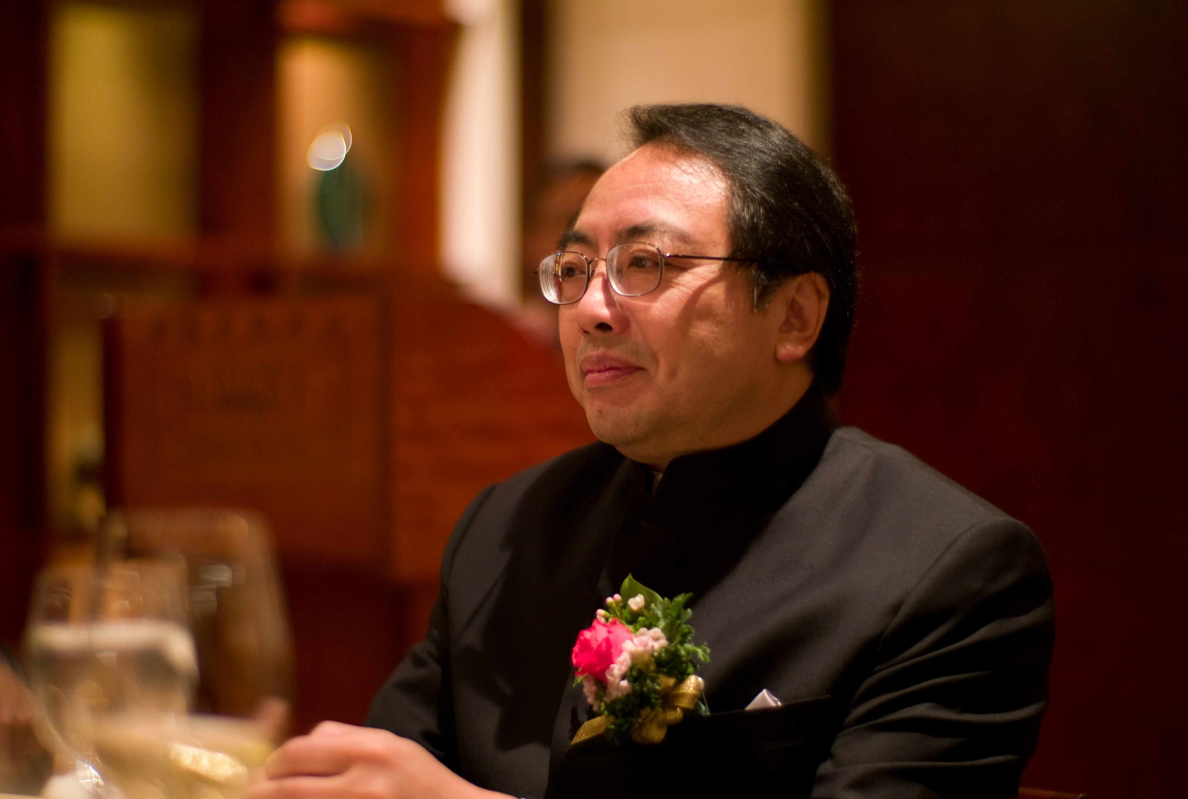 Professor Lap-Chee Tsui